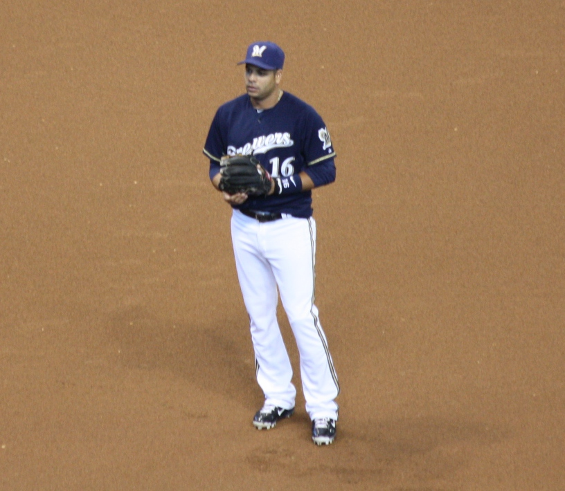 Milwaukee Brewers player Aramis Ramírez.